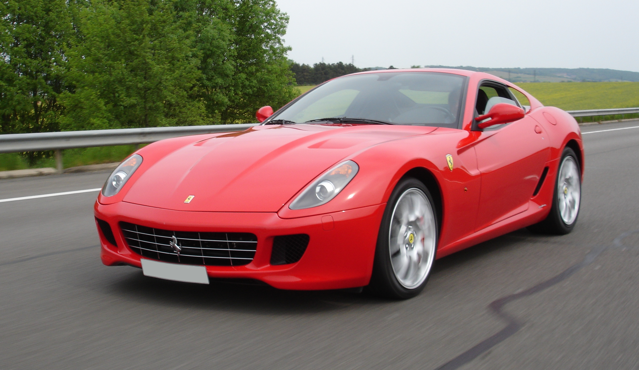 Ferrari 599 GTB Fiorano (French plate erased). Taken in France.